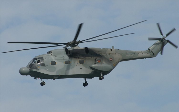 Super Frelon helicopter n°165 of the 32F Wing flying over Portsmouth